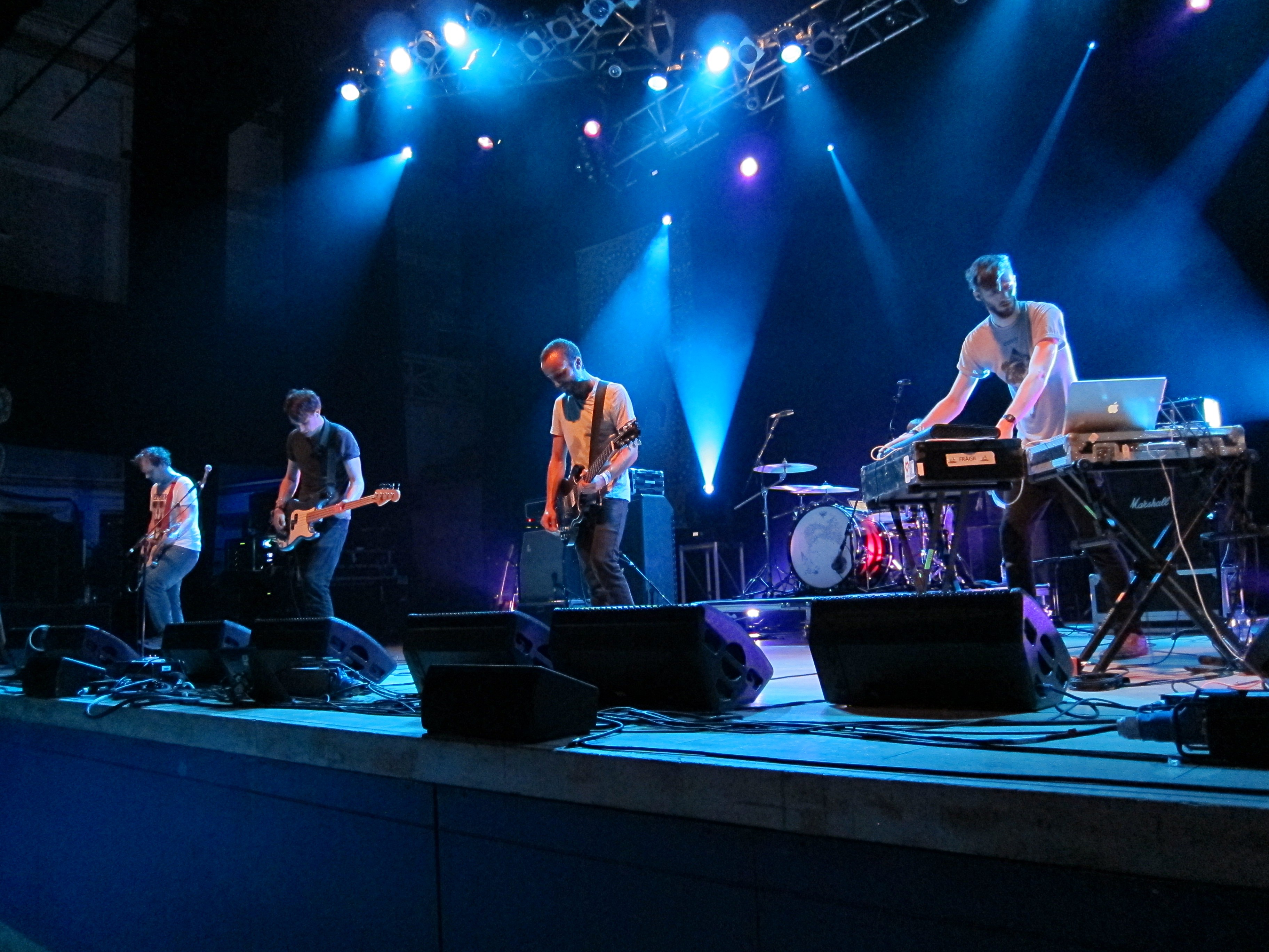 Indoor stage, Summer Sundae festival, Leicester, 19 August 2012